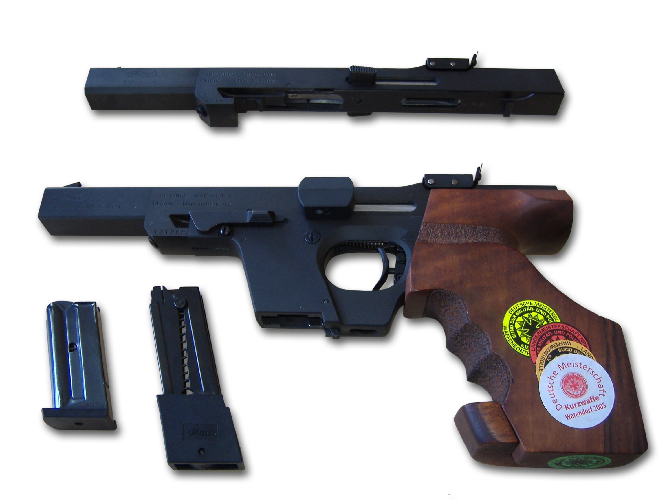 Walther GSP Sport-Pistol .22 l.r./.32 Smith&Wesson long: The system shown above the weapon and the left magazin are cal. .22 long rifle, the system shown with grip and trigger are for caliber .32 Smith&Wesson long. Also the right magazin ist made for this caliber.